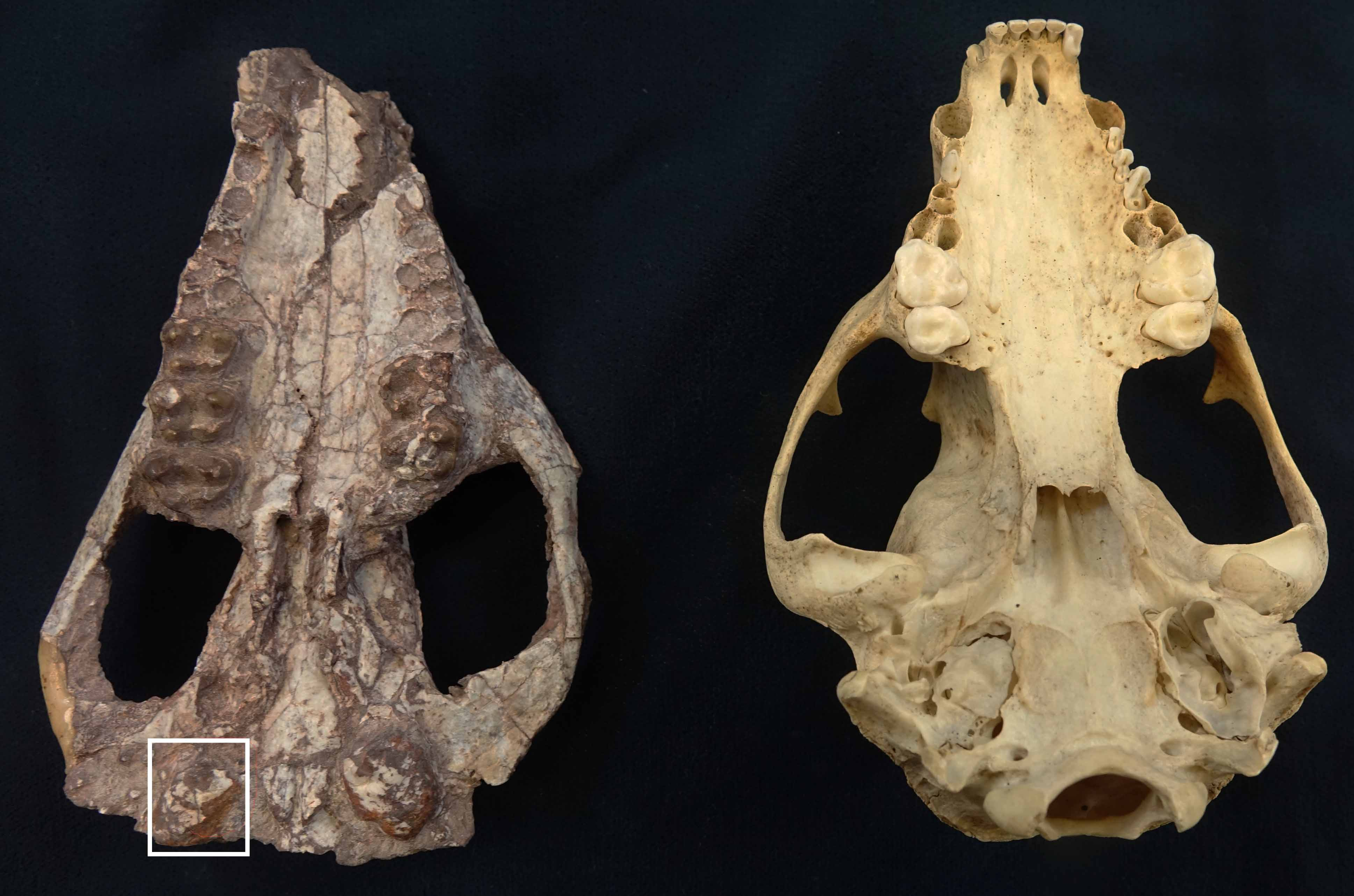 Thewissen recognised the ear structure of the auditory bulla, formed from the ectotympanic bone in a shape which is highly distinctive, found only in the skulls of cetaceans both living and extinct, including Pakicetus